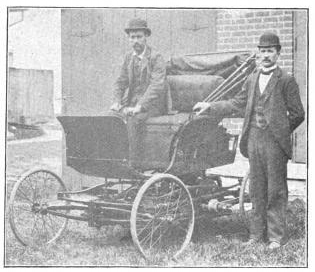 1895 Haynes Motor Carriage pictured with the Apperson brothers, Elmer and Edgar. Although often referred as a 1894 automobile, this is the second car Elwood Haynes built with the Appersons, and John D. Maxwell. It is also the car intended to participate at the 1895 Chicago Times-Herald Contest. It failed to do so, as it crashed in a streetcar on the way to the starting line.